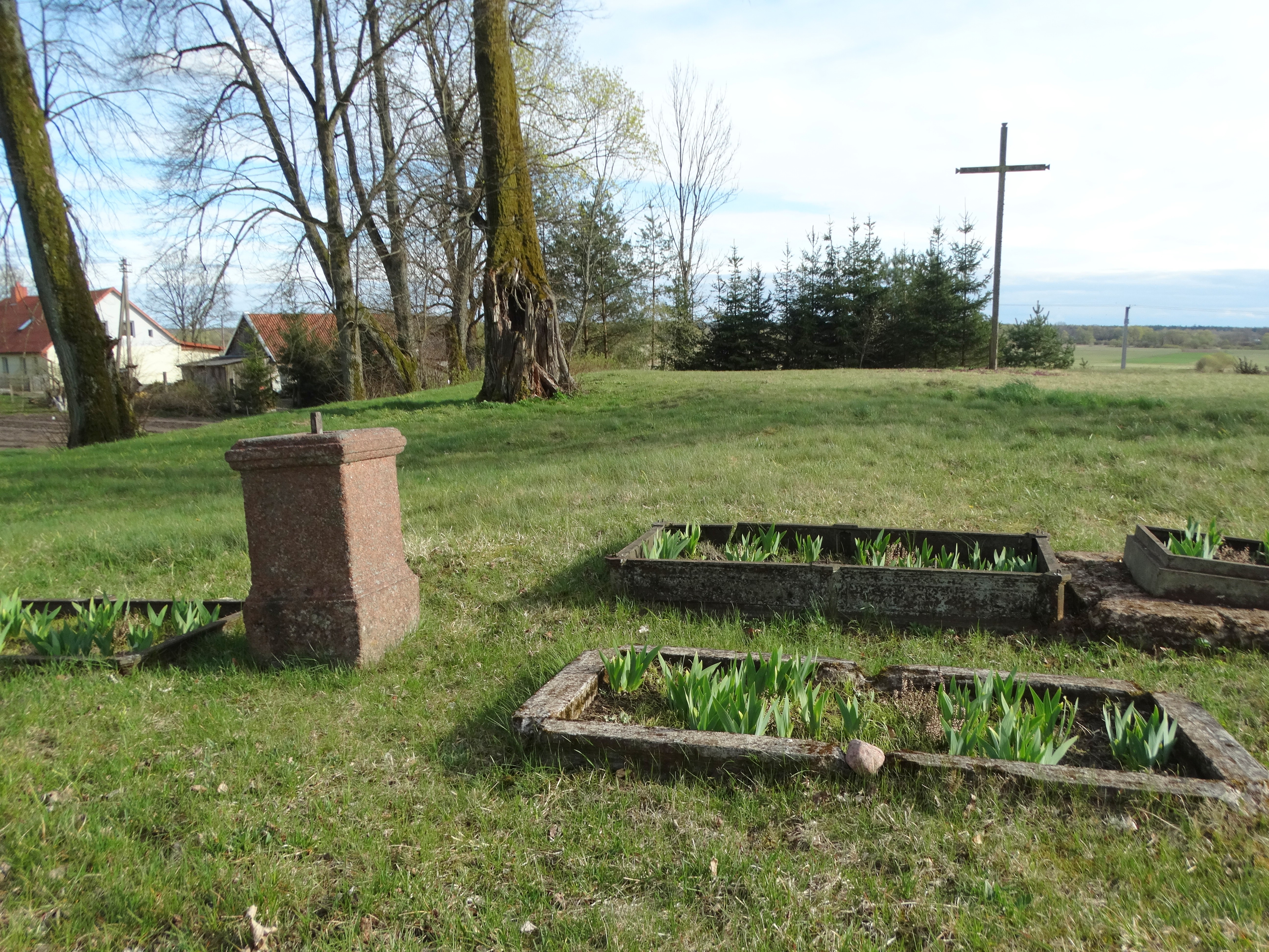 Memorial cross for the Lutheran Churchh, Viešvilė, Jurbarkas District, Lithuania